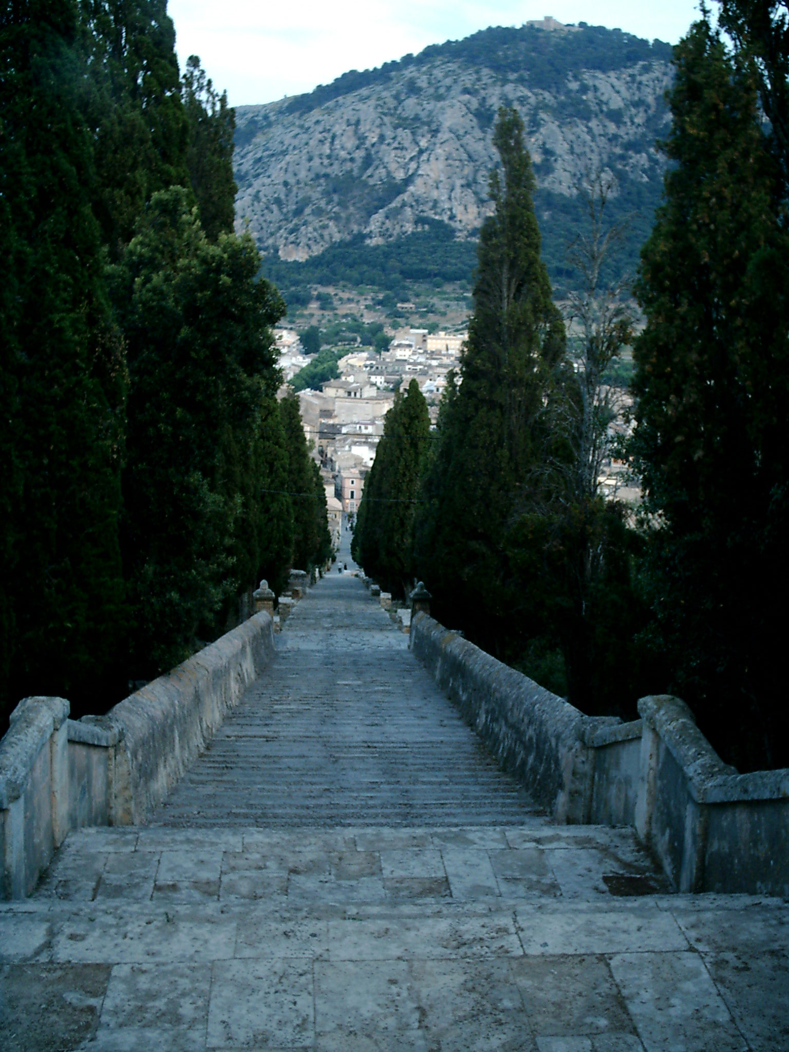 Stairs to the Calvary Hill in Pollença (Majorca)